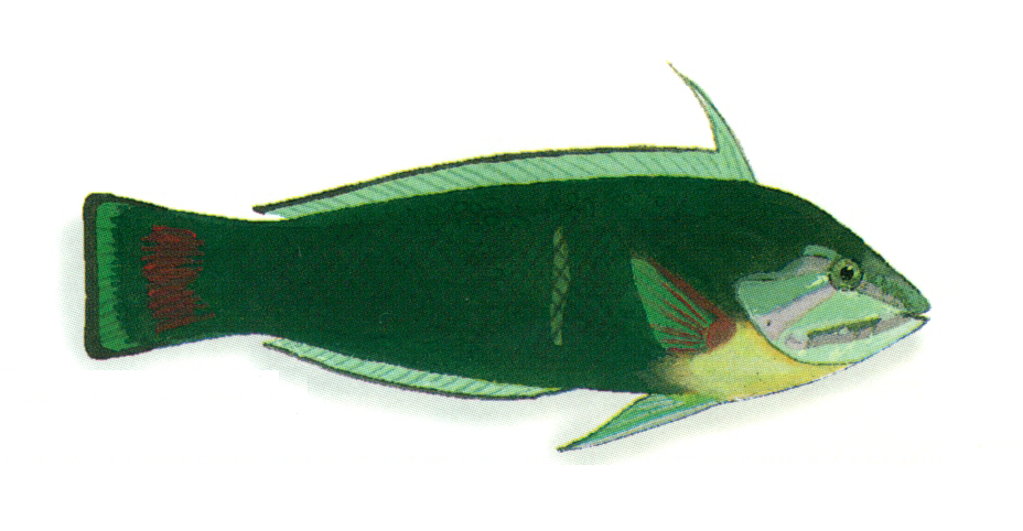 Coris_formosa